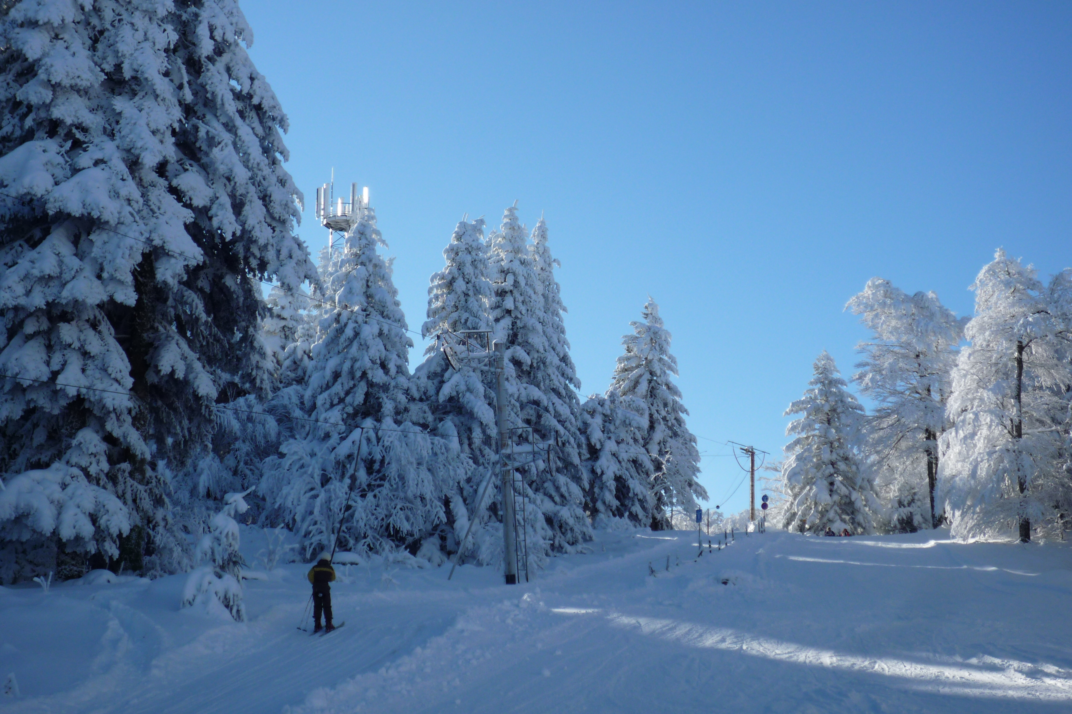 Pierres du Jour